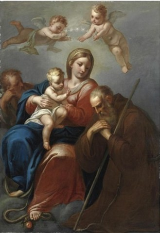 Virgin and Child and Saint Francis